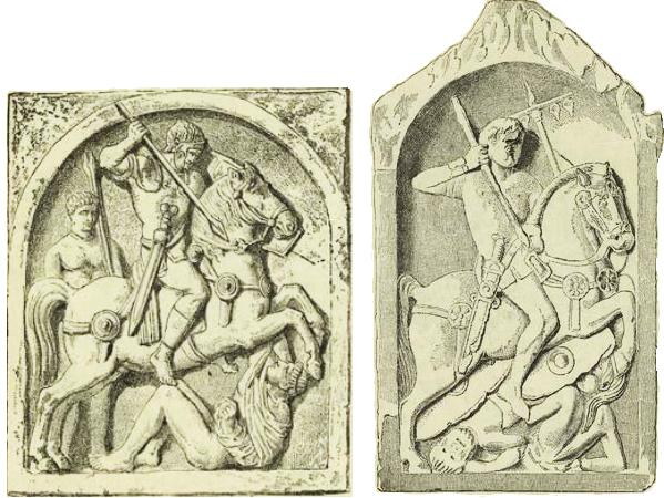 Illustration from a book. Tombstones of Rome horsemen in Germany (left one from Mainz, right one from Worms)